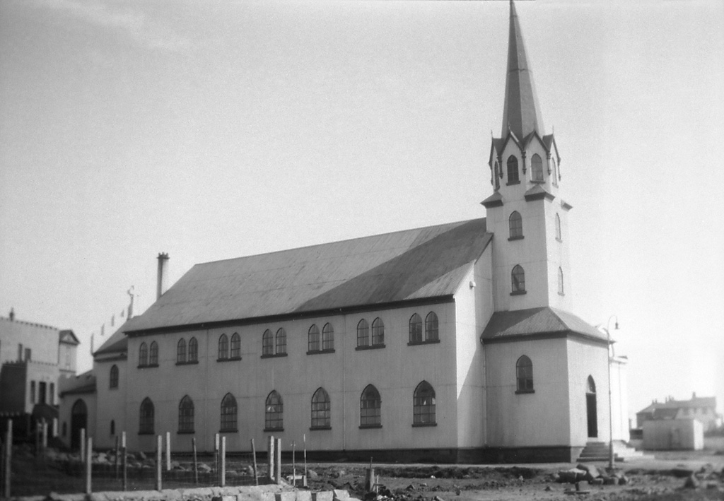 Fríkirkjan (the Free Church) on the eastern shore of the little lake Tjörnin in Reykjavik. Fríkirkjan vid östra stranden av den lilla sjön Tjörnin i Reykjavik. Location: Reykjavík, Iceland, Ísland Photograph by: Berit Wallenberg Date: 01.07.1930 Format: Film Persistent URL: Read more about the photo database (in english)